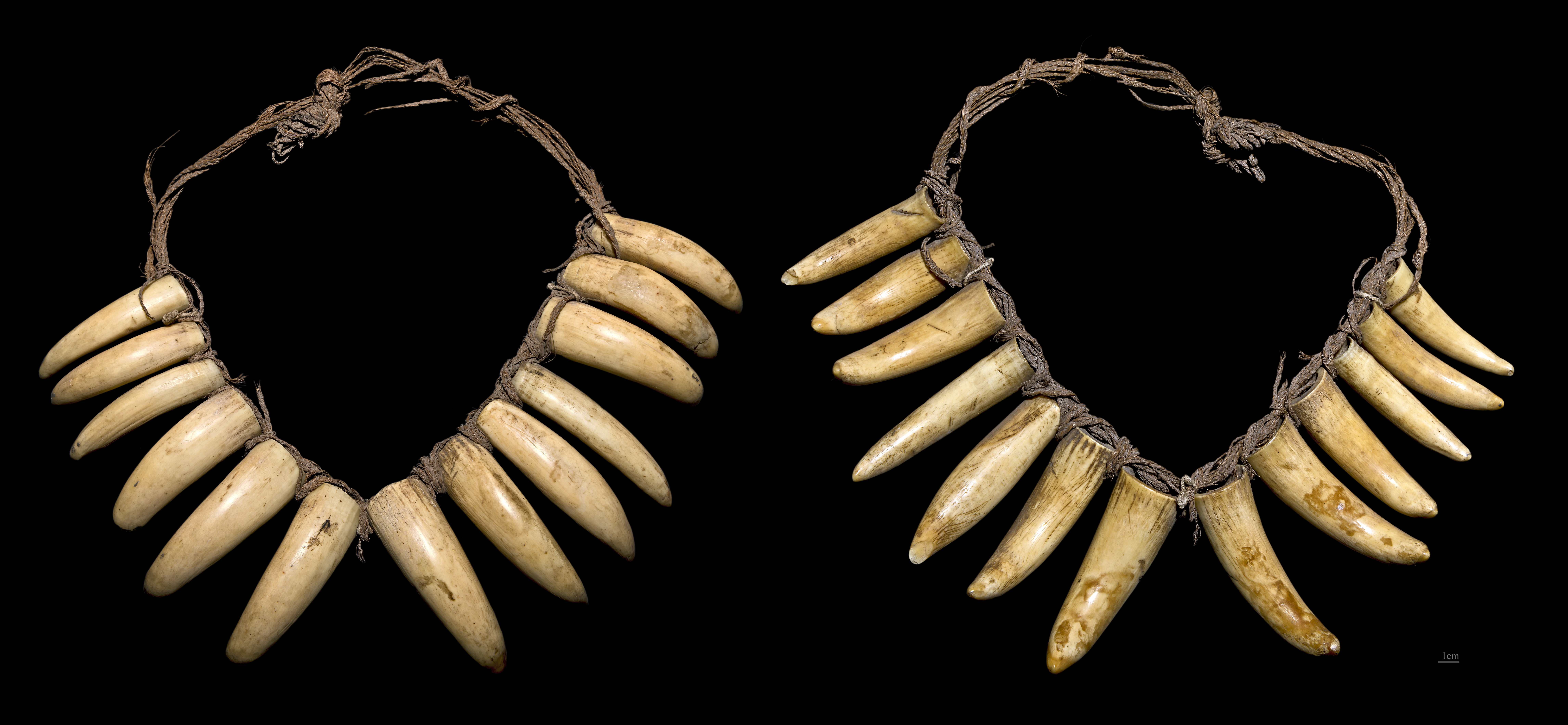 Necklace sperm whale (Physeter macrocephalus) teeth. Two views of same specimen. Population : Fijian people Collector and collection: Gaston de Roquemaurel- The second travel of Dumont D'Urville (1837 - 1840) Date of collection: 1838 Materials: Ivory and woven plant fiber Size : 5,8 x 33,4 x 28,3 cm